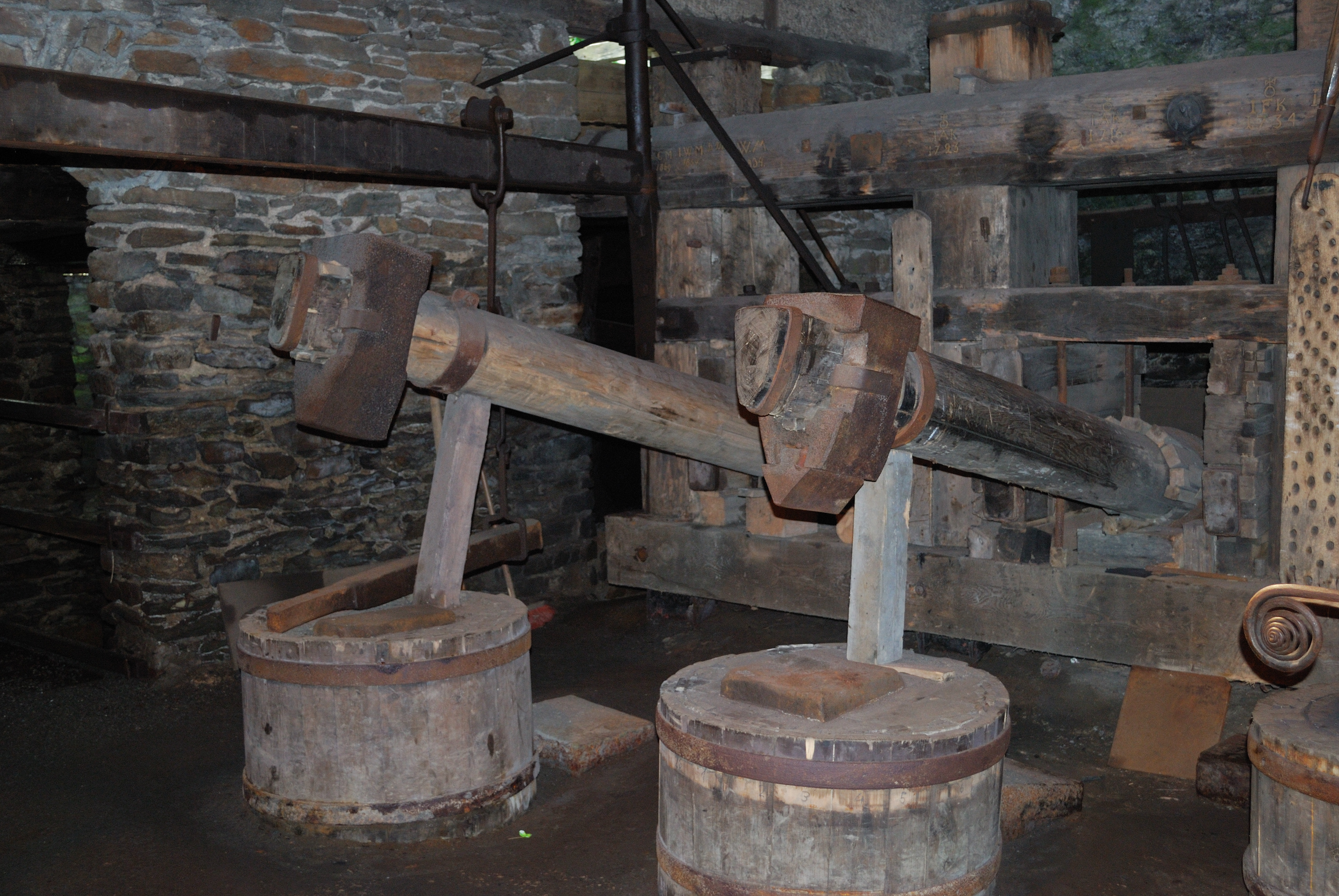 The historical hammer mill Frohnauer Hammer in Annaberg-Buchholz in Saxony, Germany.